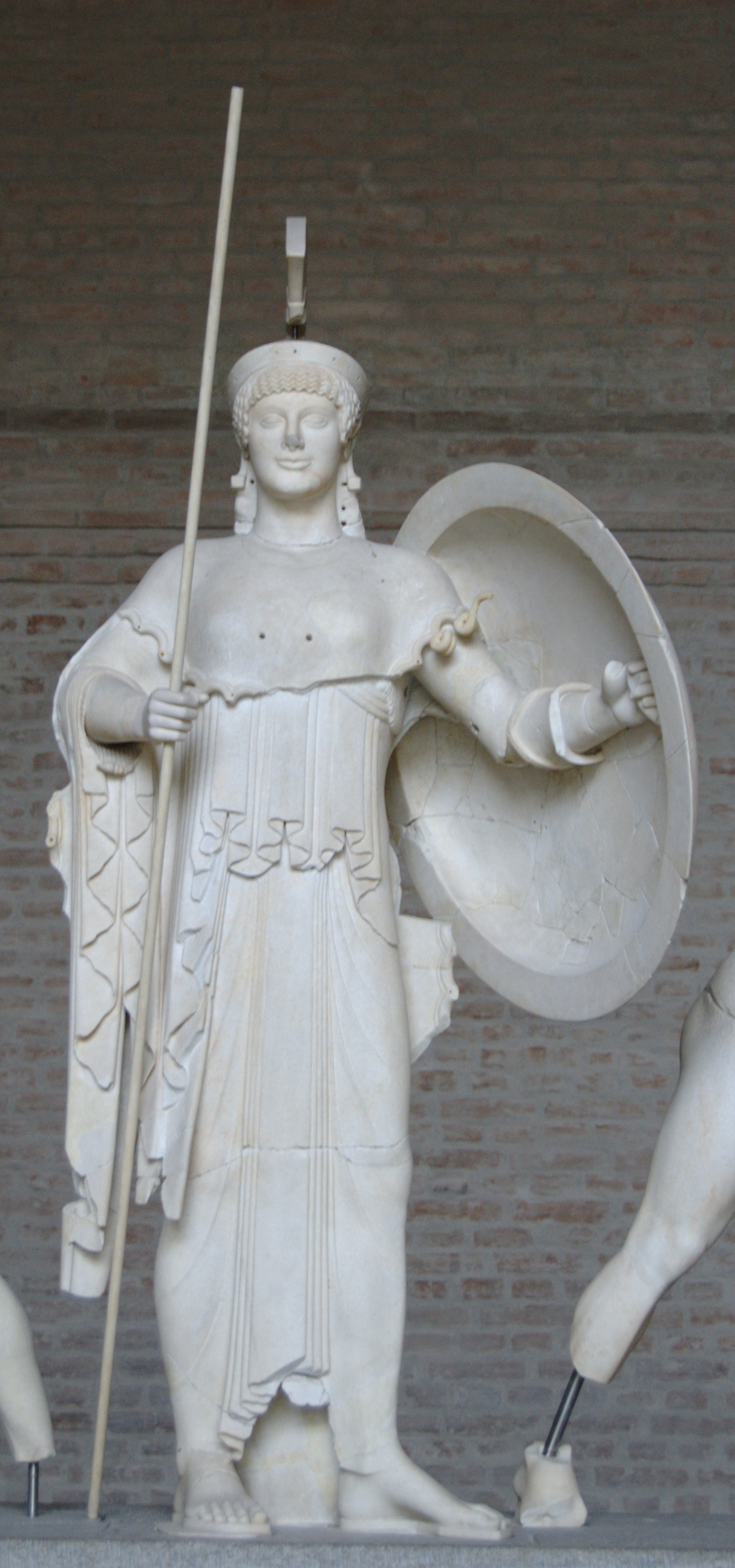 Athena, central figure (W-I) of the west pediment of the Temple of Aphaia, ca. 505–500 BC.